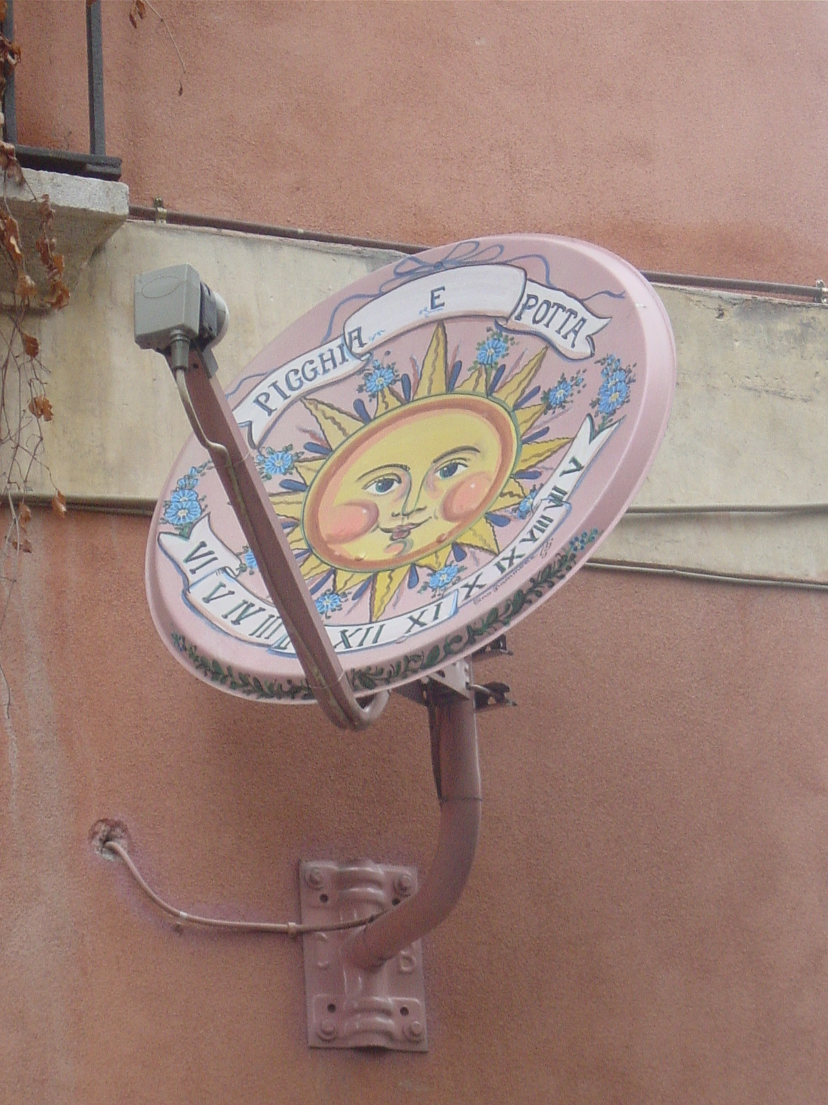 Taormina - a satellite dish camouflaged as a sundial. The inscription "Pigghia e potta" means "Piglia e porta": "Get it and take it away". January 2006; photograph by Giovanni Dall'Orto.